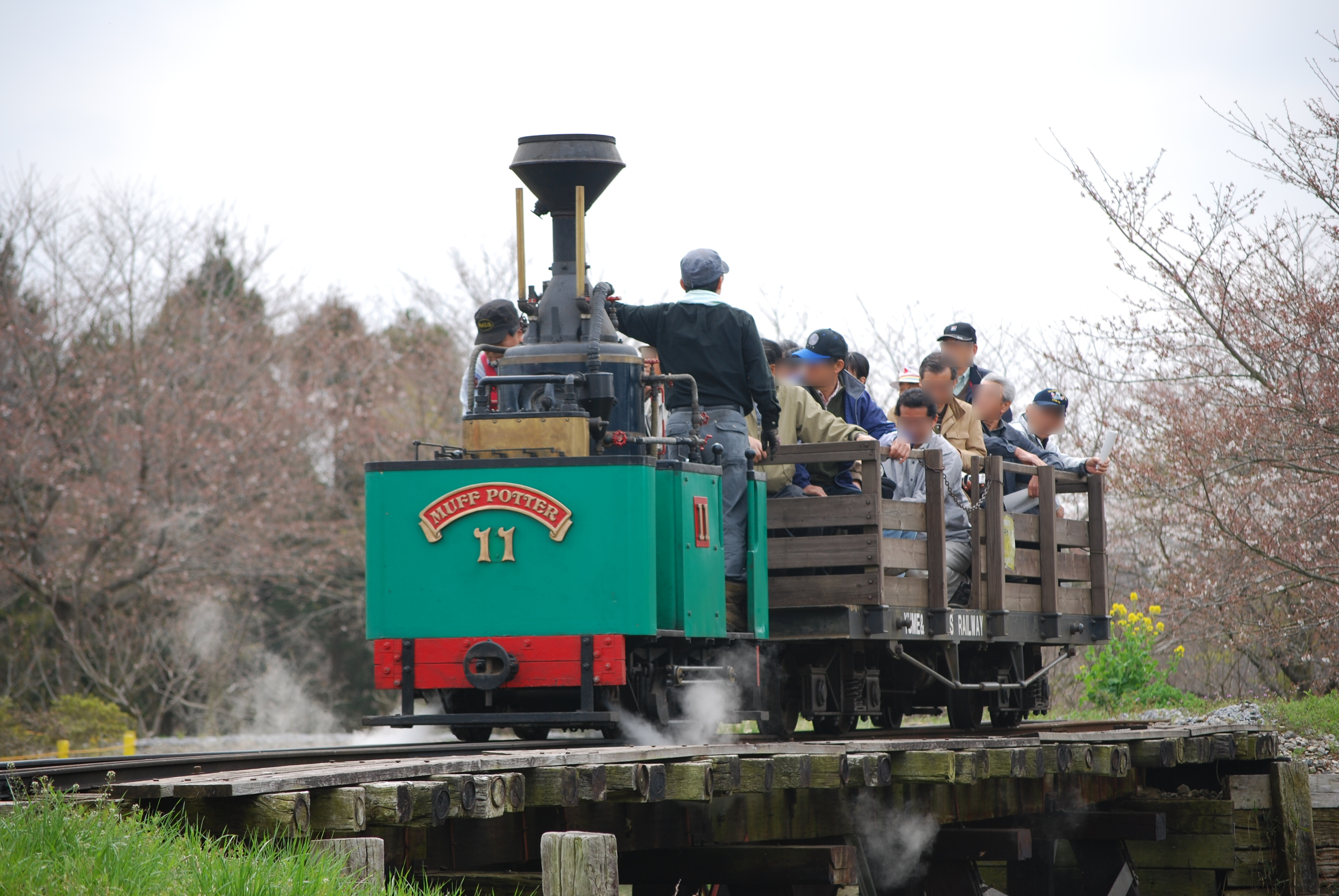 Rasuchi Maiba-Line No.11,Narita-city,Japan